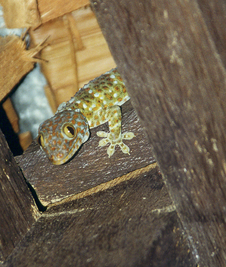 Gekko (Gekko gecko); seen under the roof of a bungalow at Hat Tien, Koh Phangan, Thailand